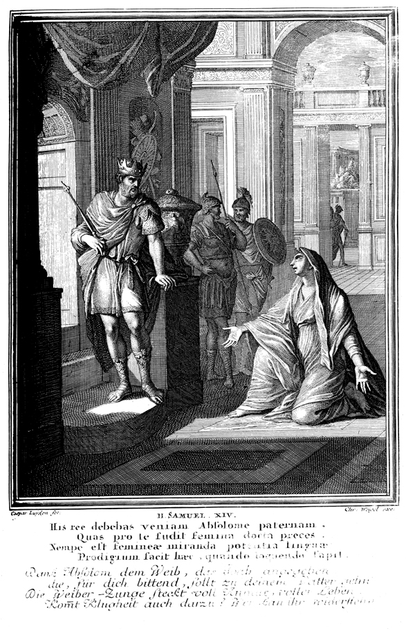 Copper engraving Wise woman of Tekoah appears before King David. From "Historiae celebriores Veteris Testamenti Iconibus representatae", Caspar Luiken (author). Call Number at Pitts Theology Library: 1712BiblA.